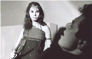 Linda Eskenas in Oscar Wilde’s “Salome,” Theatre Genesis